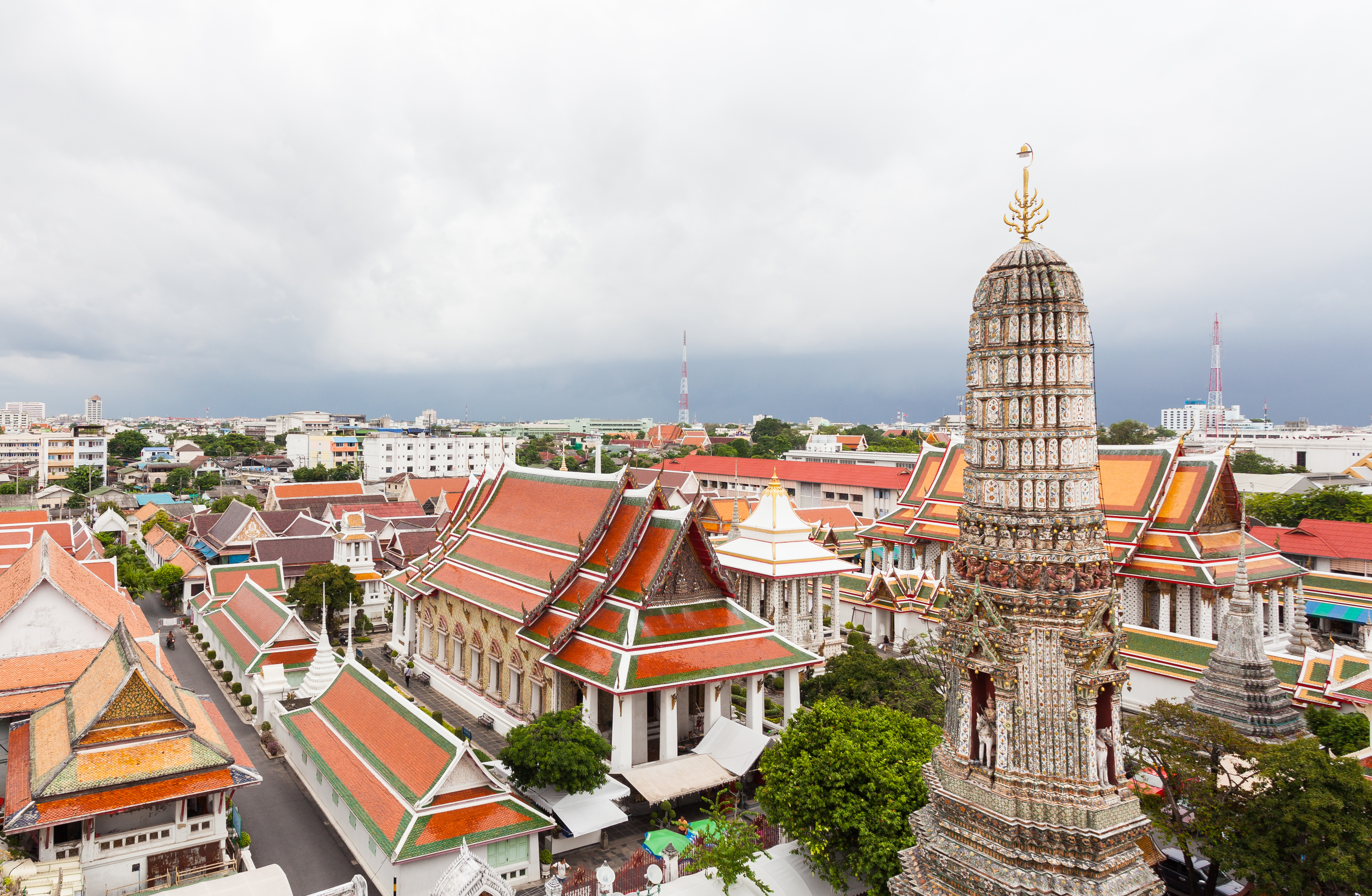 Wat Arun Temple, Bangkok, Thailand